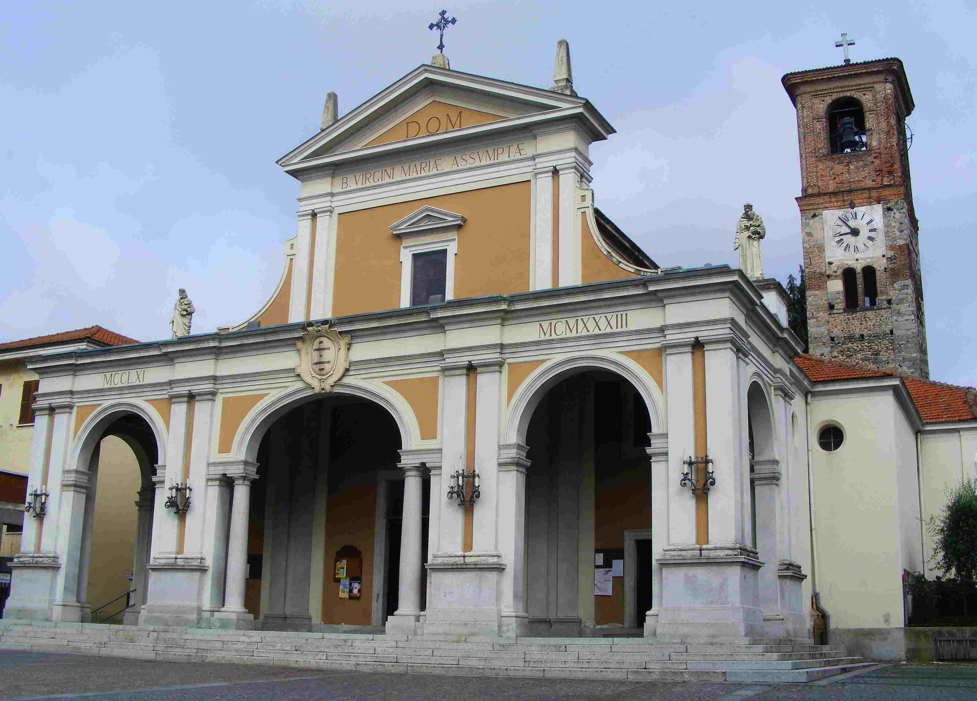 Parish church of Cossato (BI, Italy)